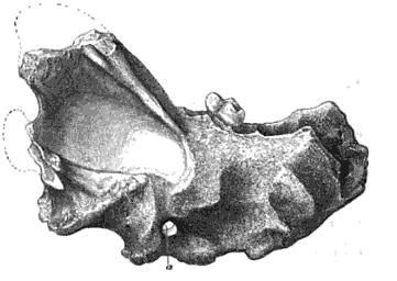 Illustration of a British wolf jaw.